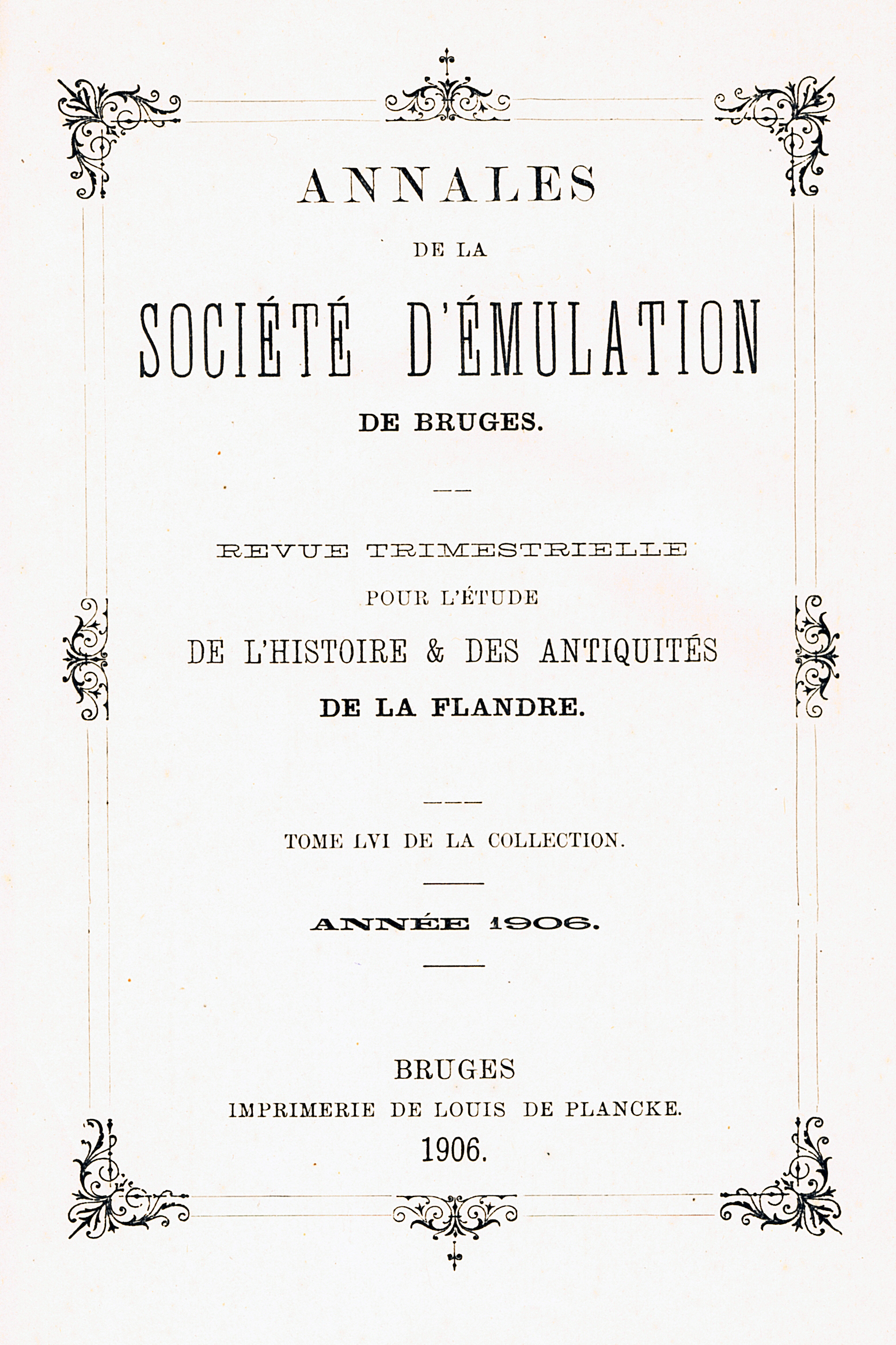 Annales de la Société d'Emulation (Bruges), volume 56 (1906)